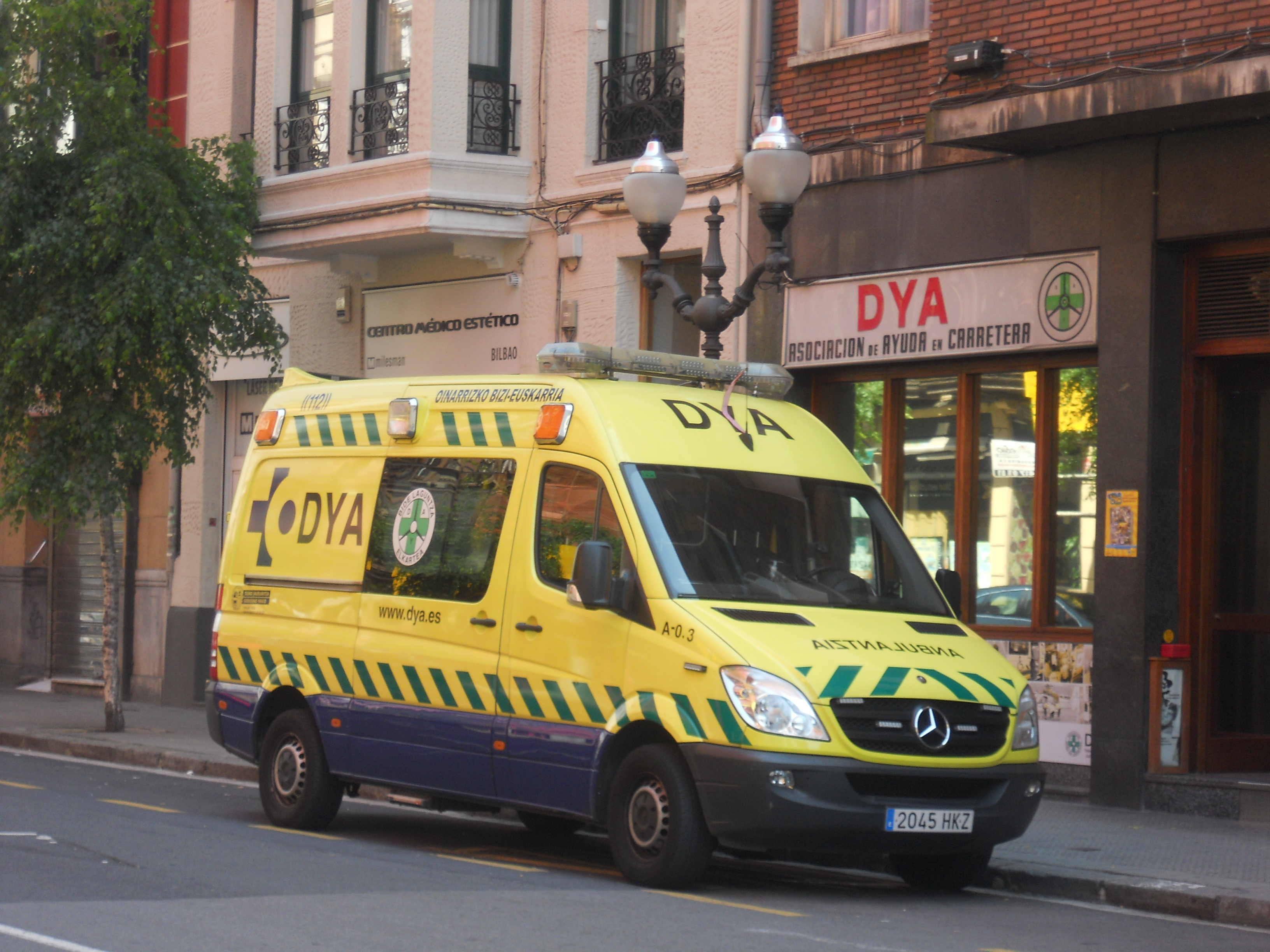 DYA's HQ and ambulance at Alameda San Mamés (Bilbao).